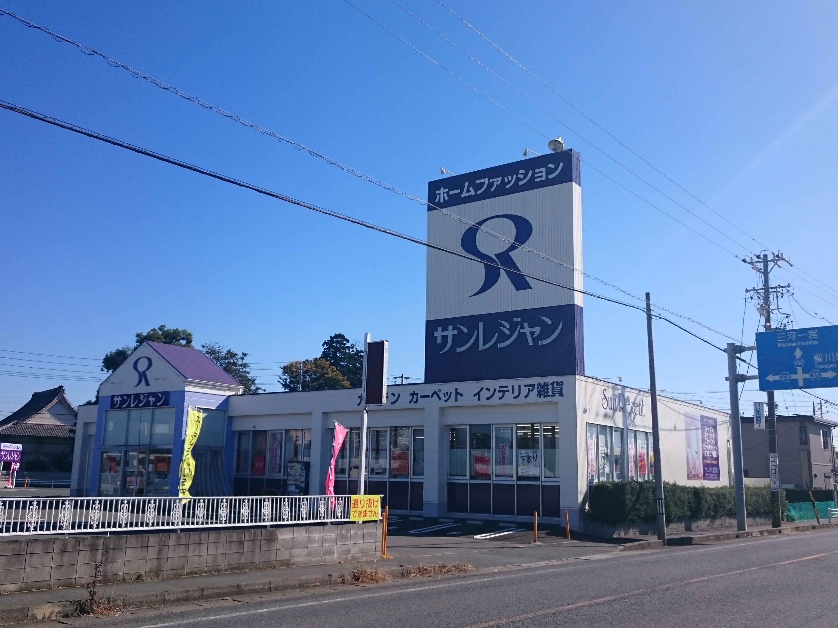 Sun Regent Co., Ltd. Toyokawa (サンレジャン豊川店), located at 19-1 Higashiura, Hon'no-chō, Toyokawa, Aichi, Japan